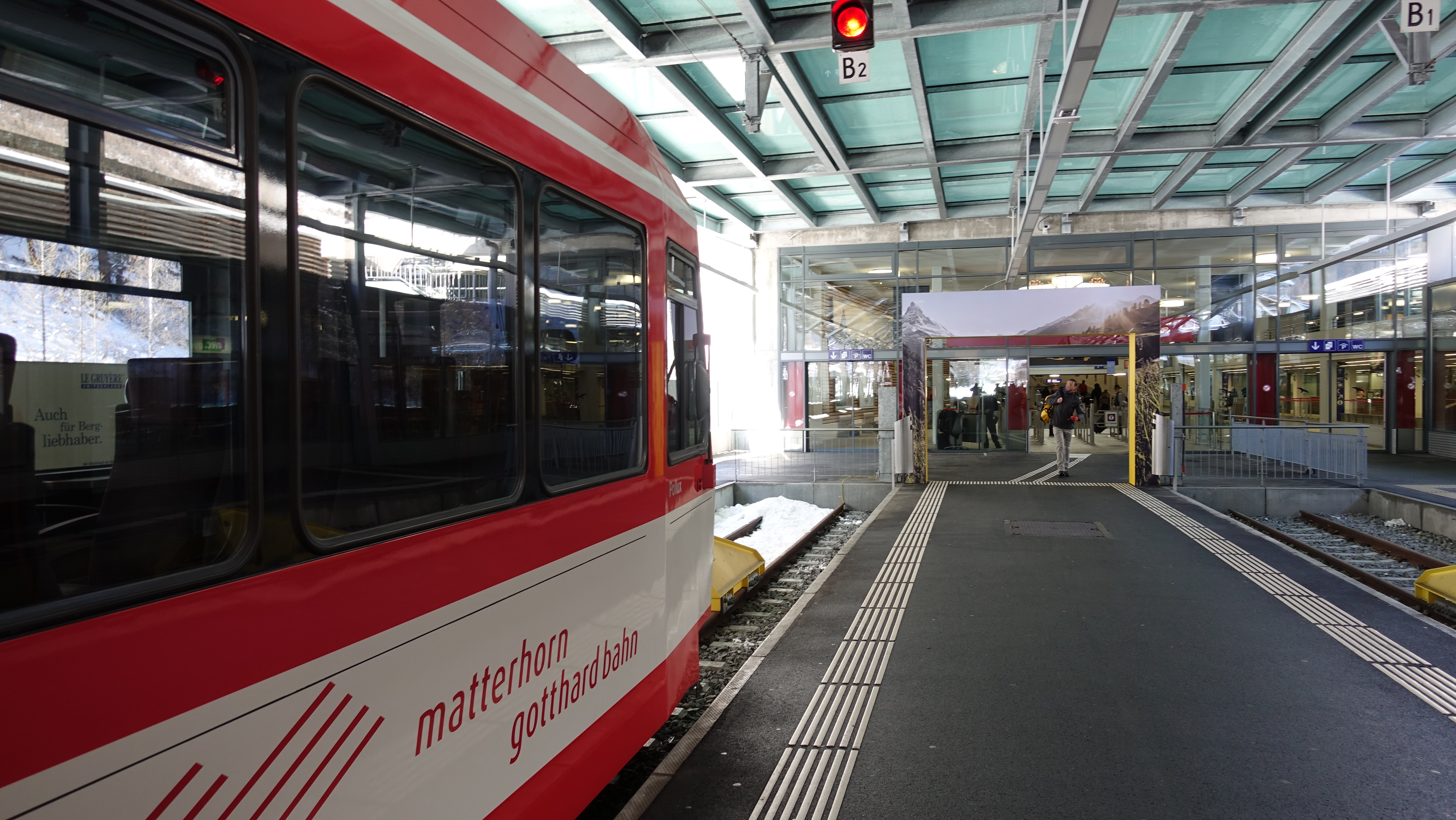 Täsch train station